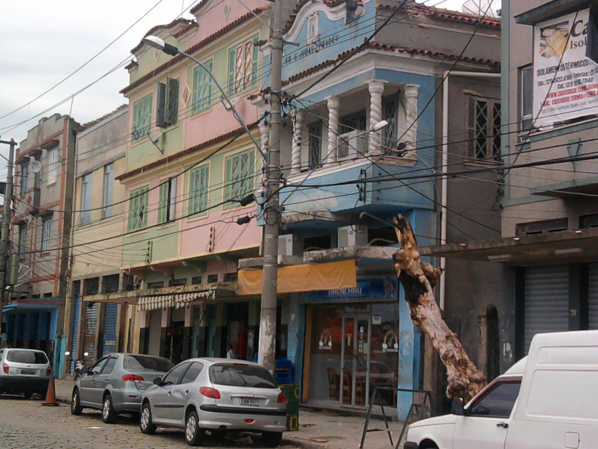 Portugal Pequeno, Ponta d'Areia, Niterói, Rio de Janeiro, Brazil.